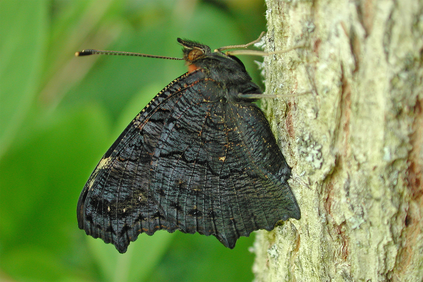 Bottom side of Peacock butterfly (Inachis io)